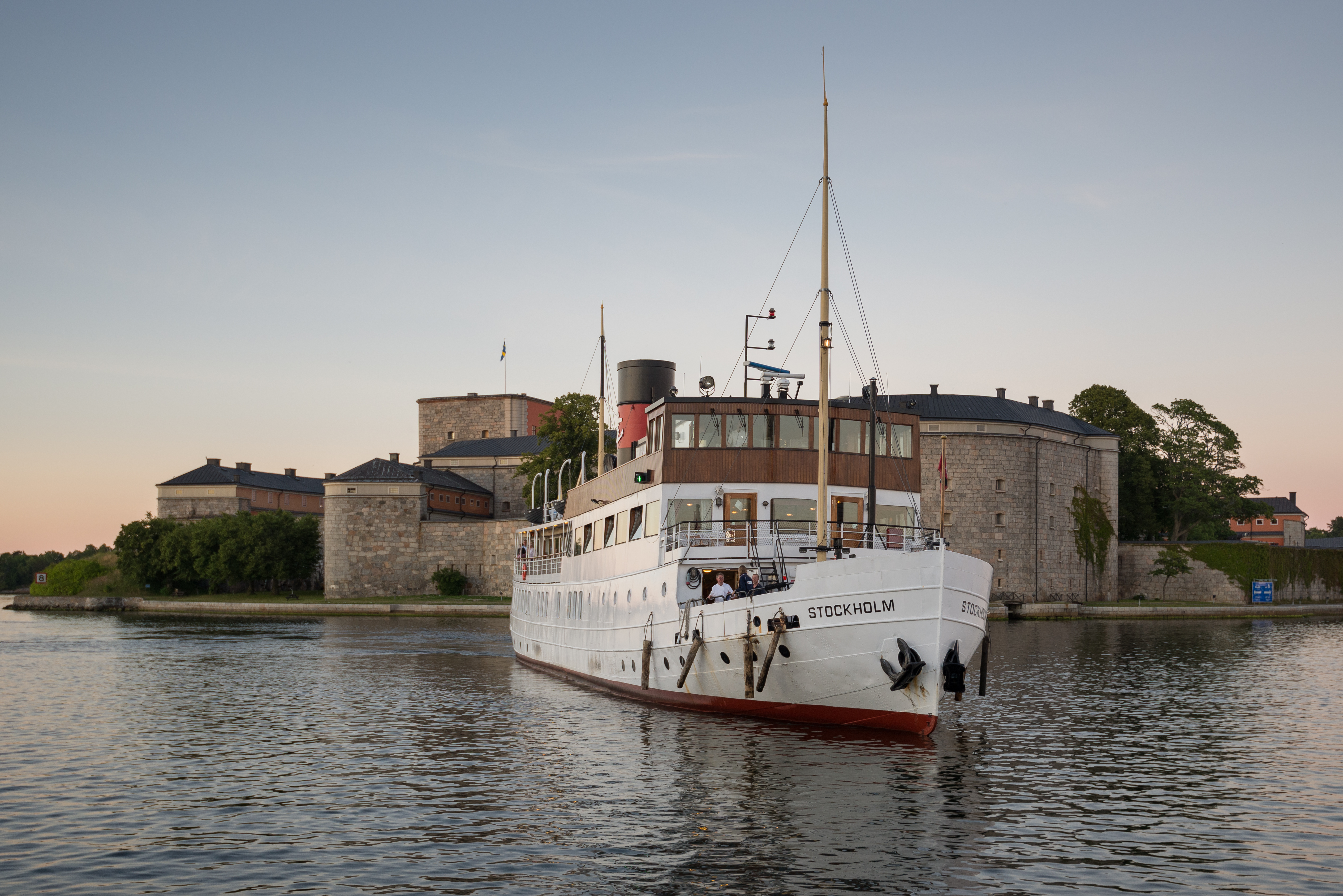 S/S Stockholm arriving in Vaxholm with Vaxholm castle in the background.